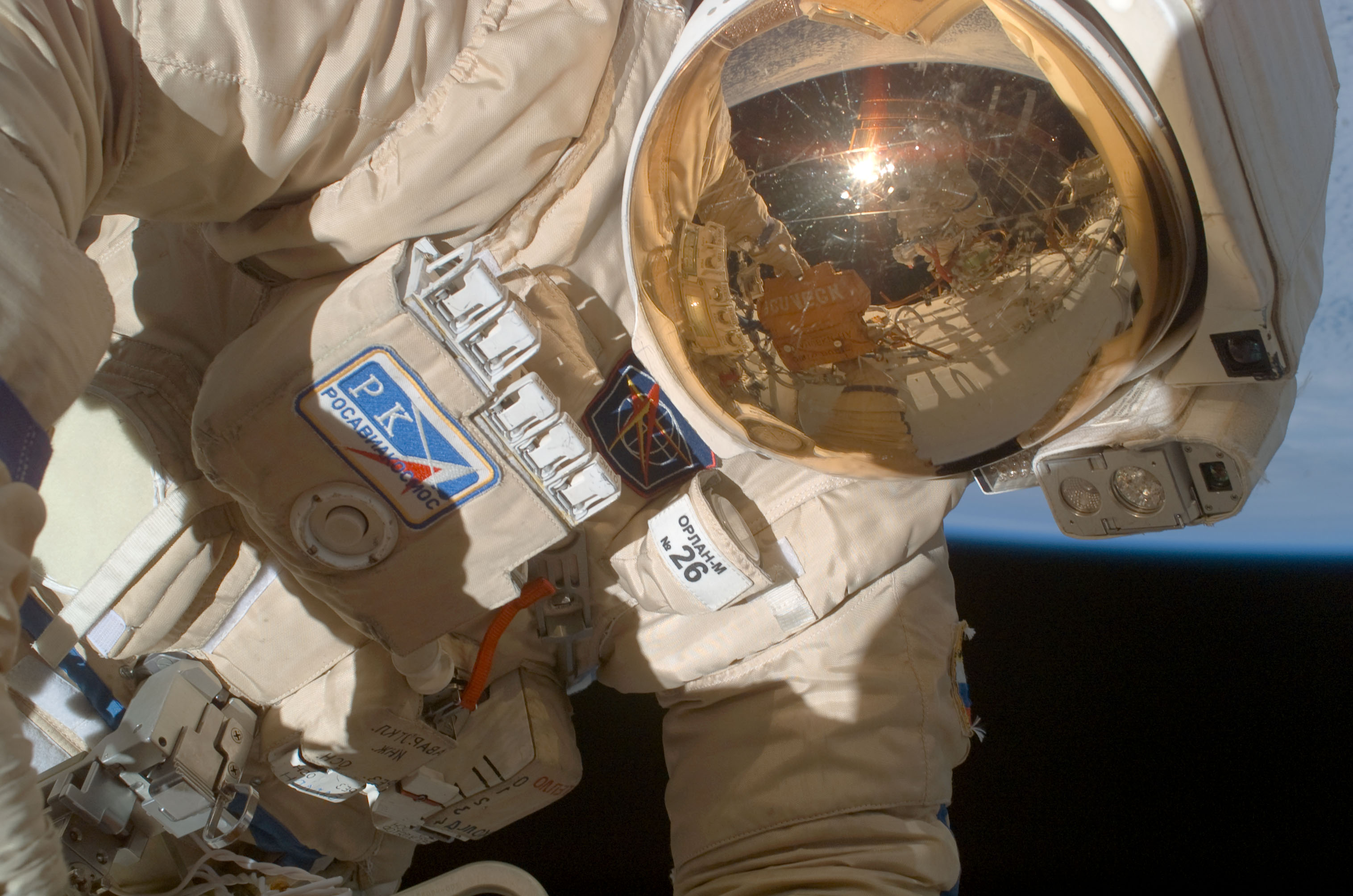 This close-up view shows reflections in the visor of Russian Federal Space Agency cosmonaut Oleg Kononenko, Expedition 17 flight engineer, as he participates in a session of extravehicular activity (EVA) as construction and maintenance continue on the International Space Station. Visible in the reflections in the visor are cosmonaut Sergei Volkov, commander, and various components of the station. During the five-hour, 54-minute spacewalk, Kononenko and Volkov continued to outfit the station's exterior, including the installation of a docking target on the Zvezda Service Module